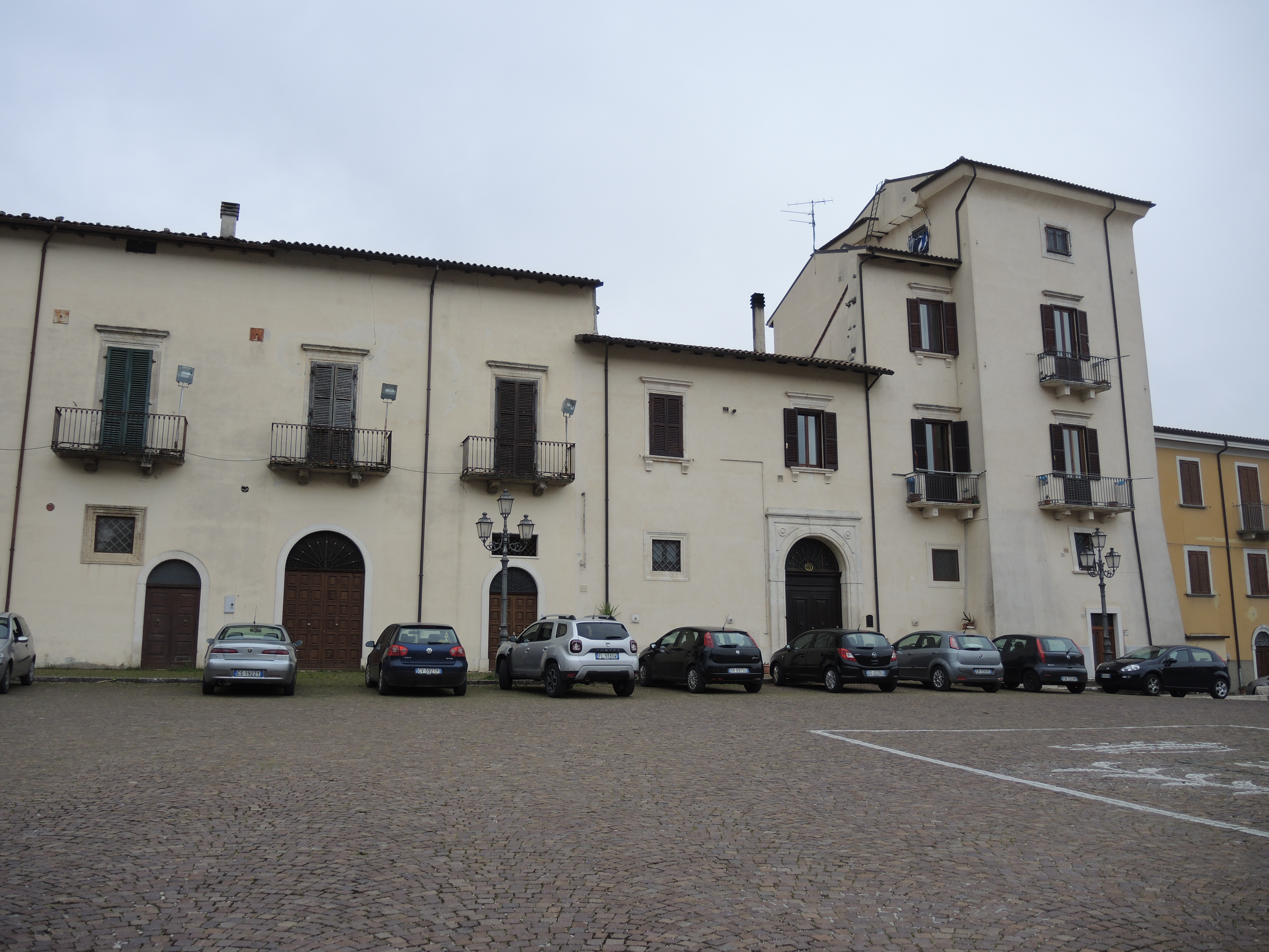 Molina Aterno: Palazzo Piccolomini